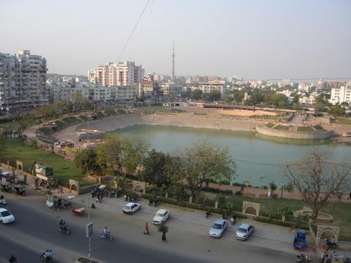 Vastrapur Lake, Ahmedad, India